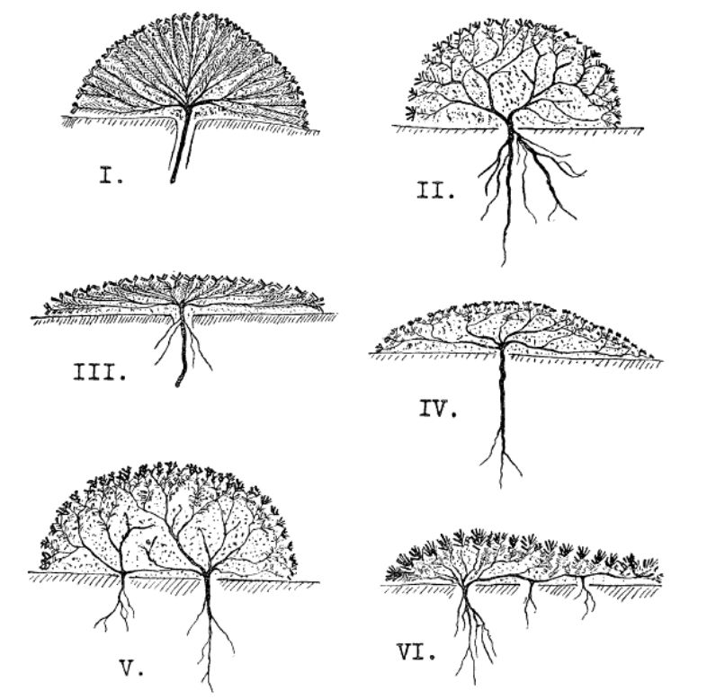 Schematic vertical cut of the six cushion plants types, from Hauri,, Journal of Ecology Vol. 1, No. 2 (Jun., 1913), pp. 118-121 Type I : Single root, form more or less hemispherical, branches radially arranged. Type II : Like type I, but branches irregular and spreading at first. Types III and IV : Like types I and II respectively, but with more or less flattened top. Type V : Several roots system, branches irregular butconnivent and thus giving a hemispherical form. Types VI : Like type V, but branches spreading and the form flattened.